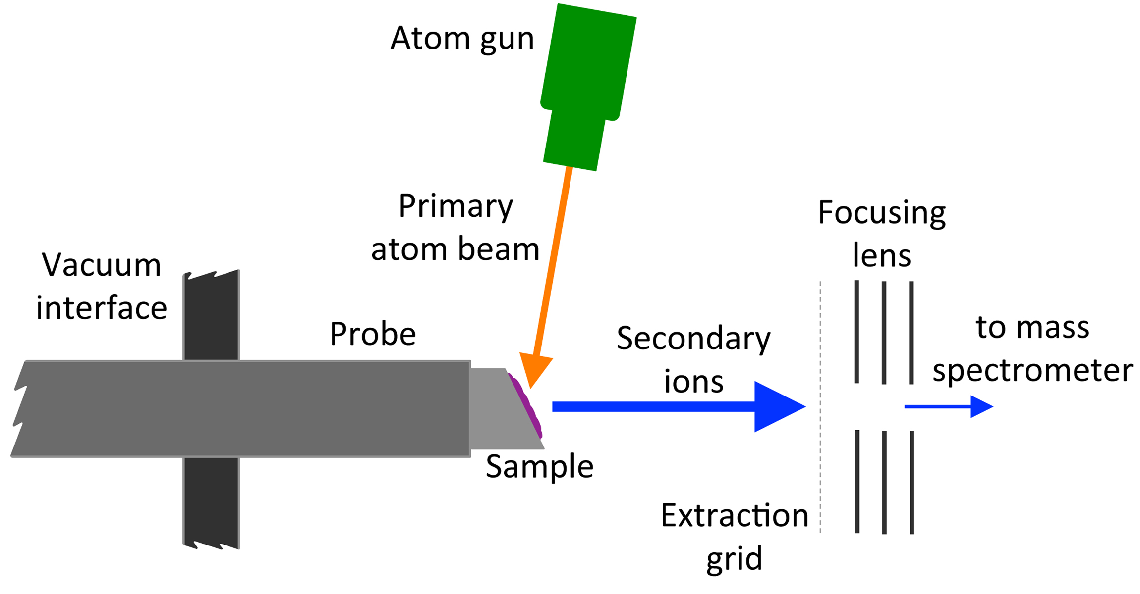 Schematic of the mass spectrometry ionization method fast atom bombardment (FAB) also known as liquid secondary ionization mass spectrometry (LSIMS).